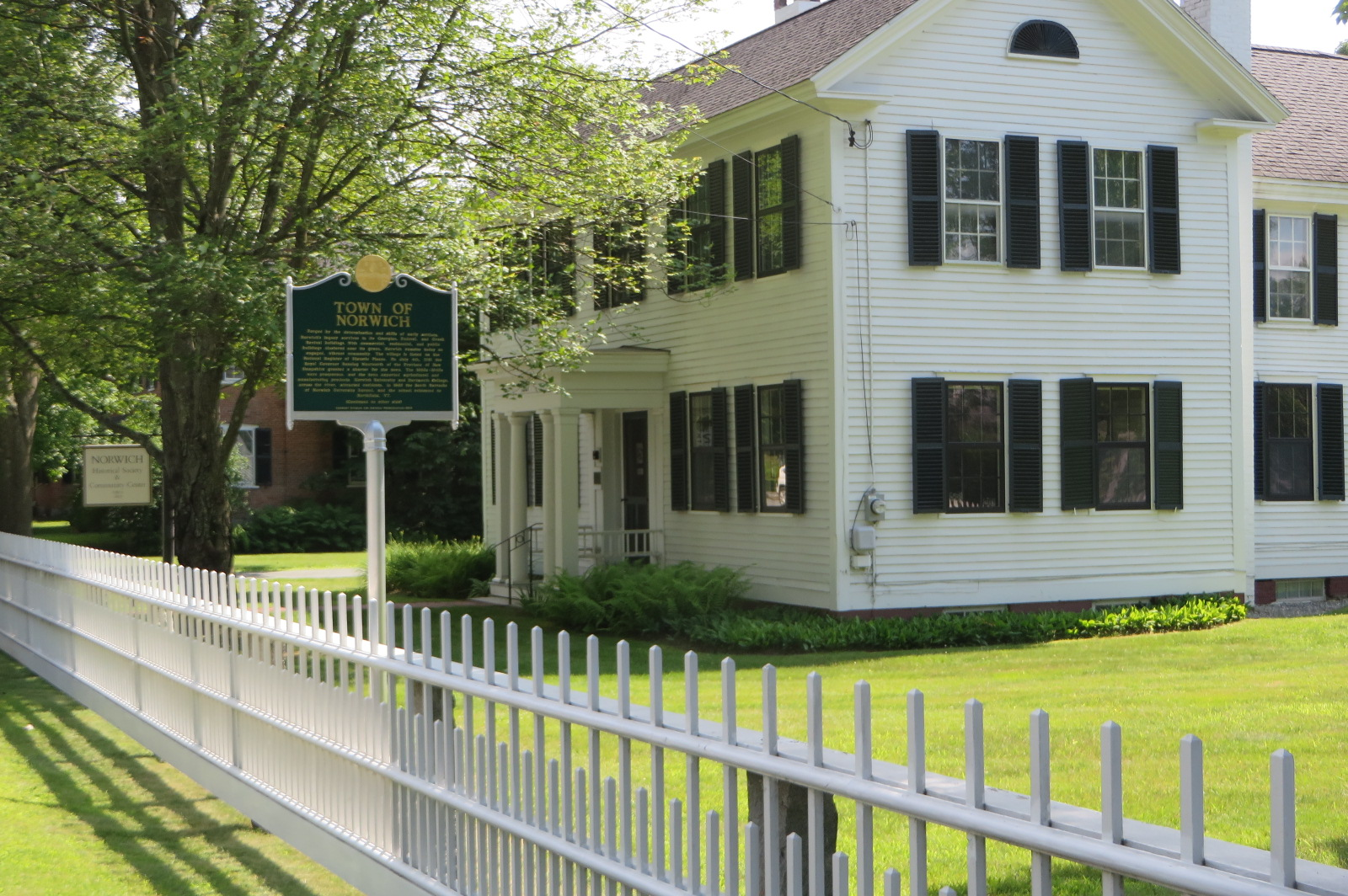 Norwich Historical Society in the center of Norwich (CDP), Vermont